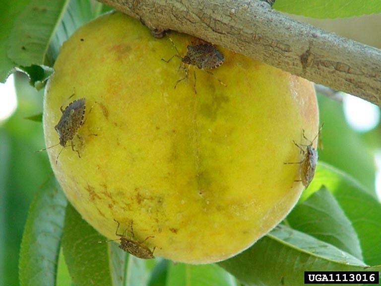 Brown marmorated stink bug (Halyomorpha halys) (adult) on a peach (Prunus persica) ; family Pentatomidae